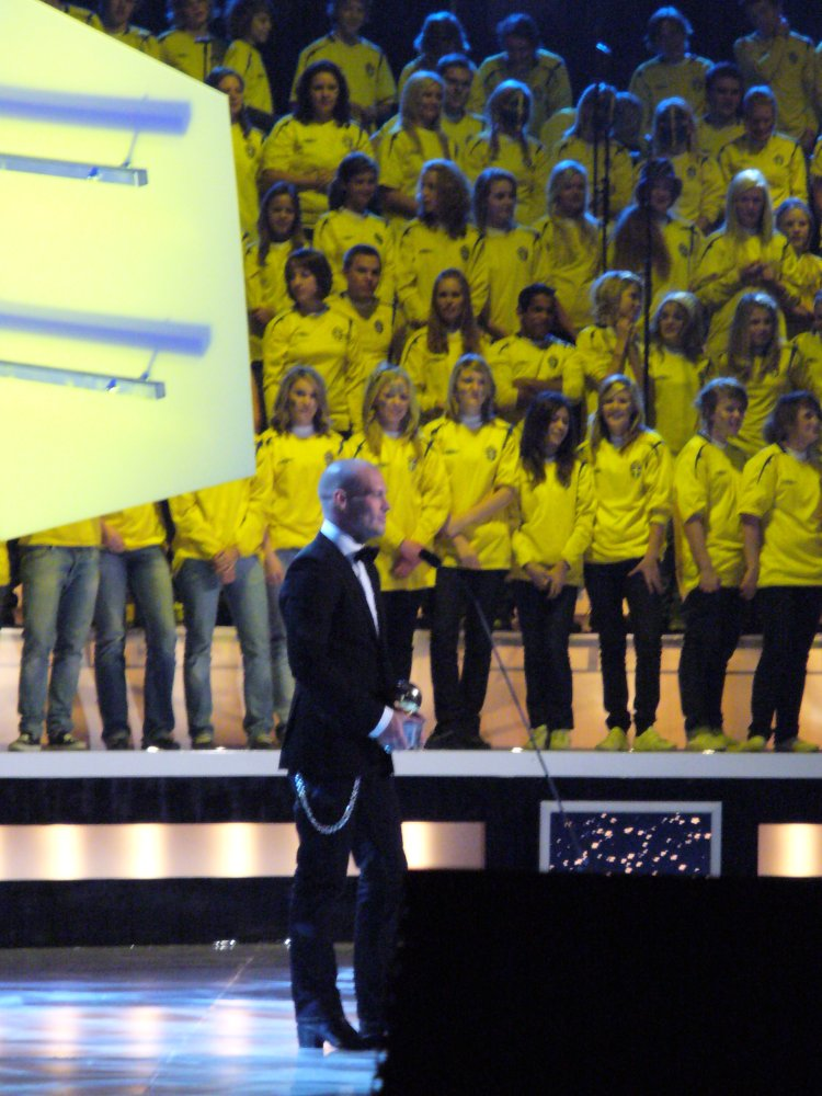 Fredrik Ljungberg receiving Guldbollen at the Swedish Football Awards 2006